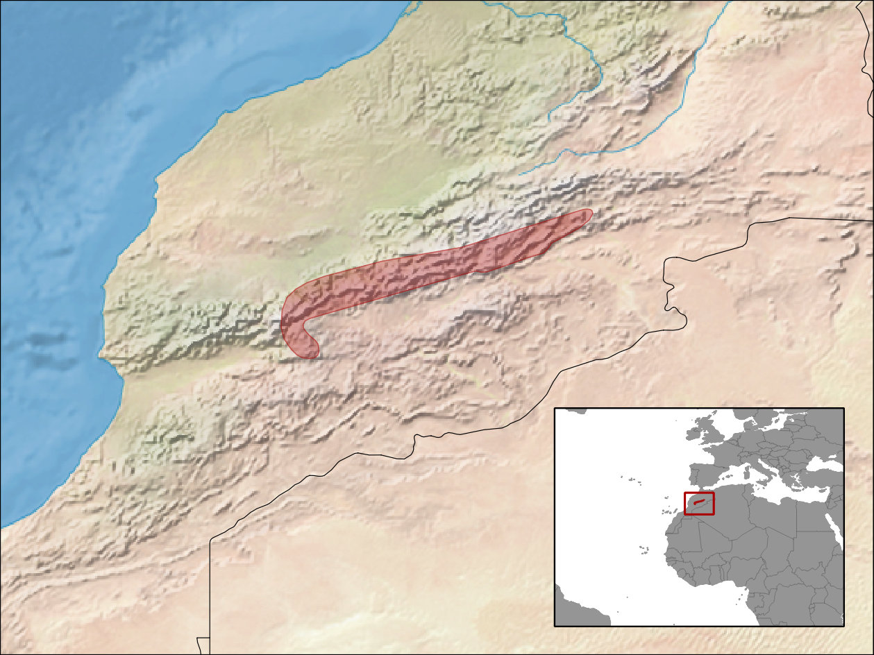 geographic distribution of Chalcides montanus